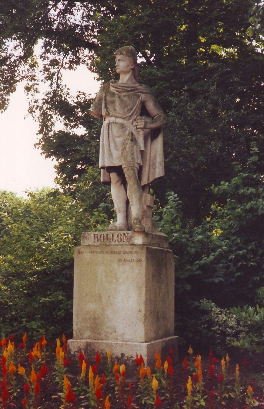 Rollo of Normandy, duke of Normandy, statue in Rouen